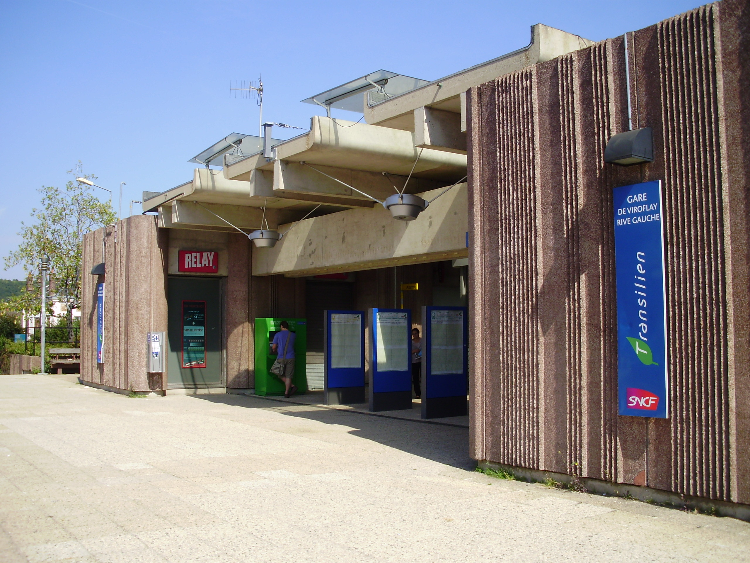 Viroflay-Rive-Gauche station, in Viroflay, Yvelines, France (station building, street side)